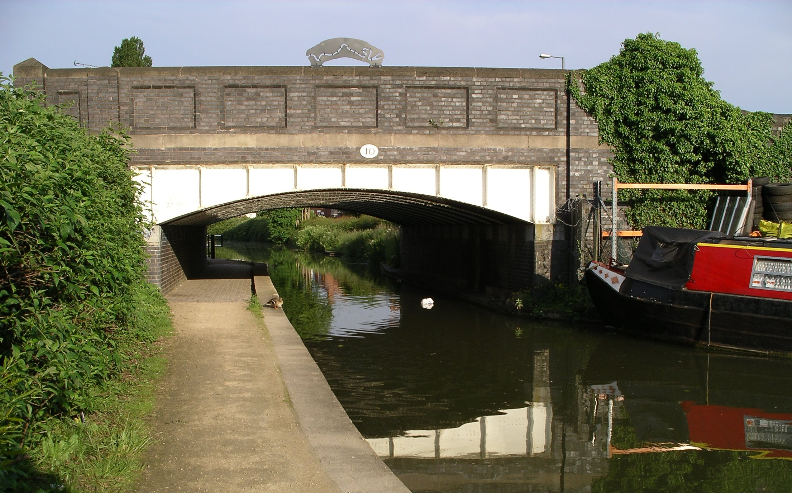 Photo of the Coventry Canal and the bridge for the Longford Road, in Longford, Coventry, England. This bridge is on the Longford Road near to Dovedale Avenue.